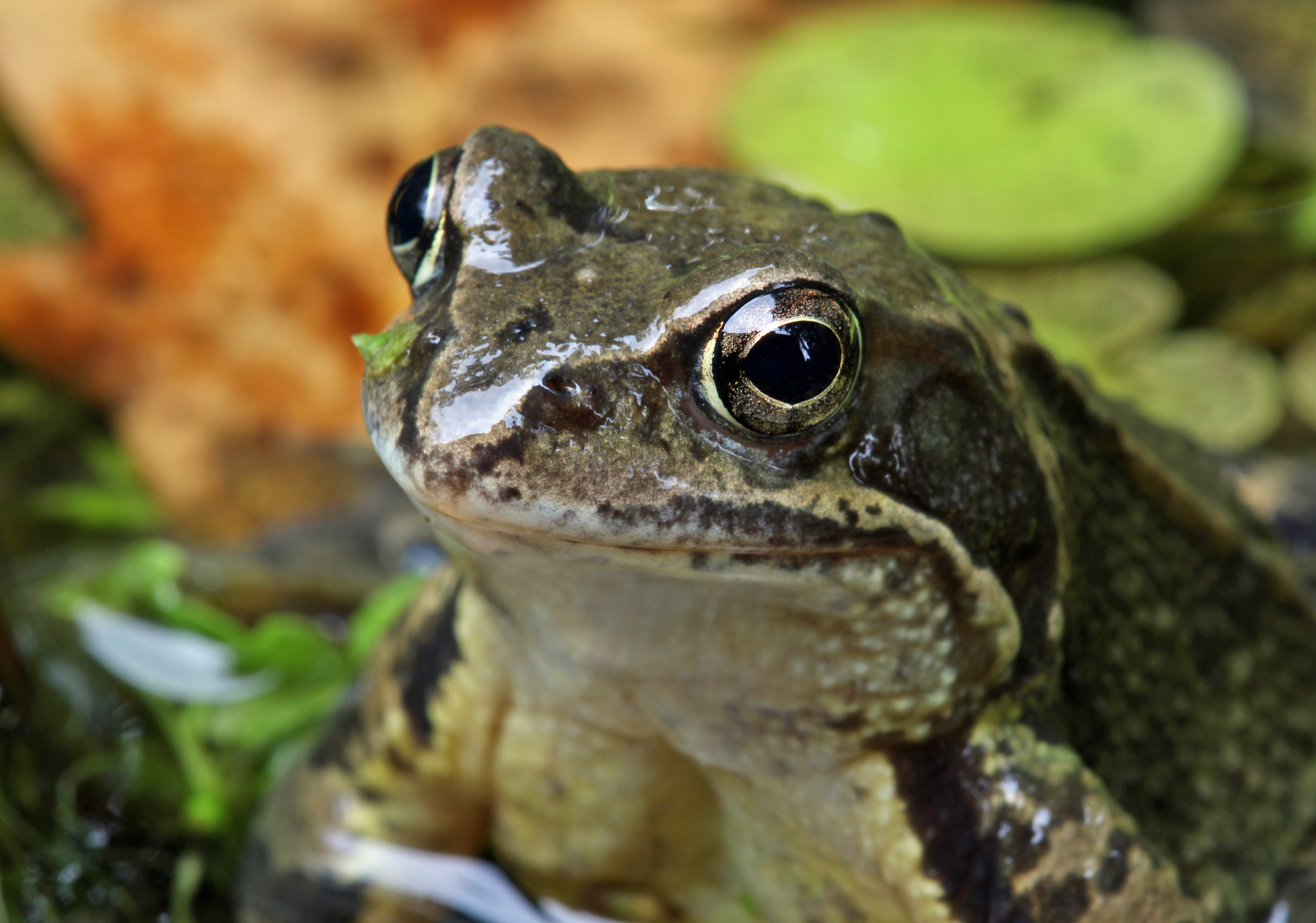 Close-up of a big male Common Frog, Rana temporaria – diurnal at a pond in rainy autumn.